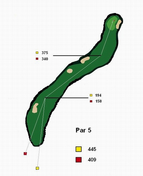 Typical double dogleg on a Par-5-hole